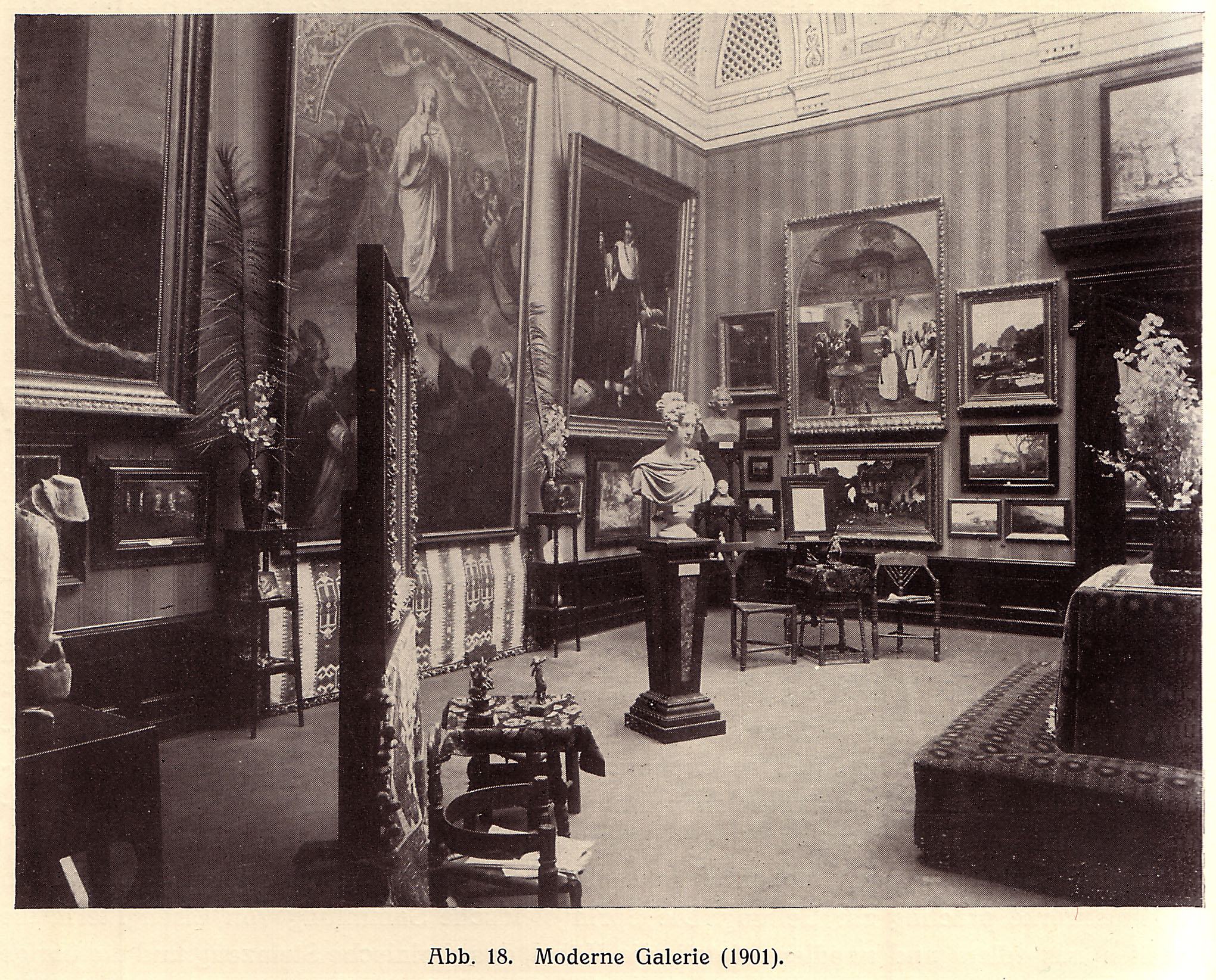 interior view Suermondt-Museum, Aachen around 1901